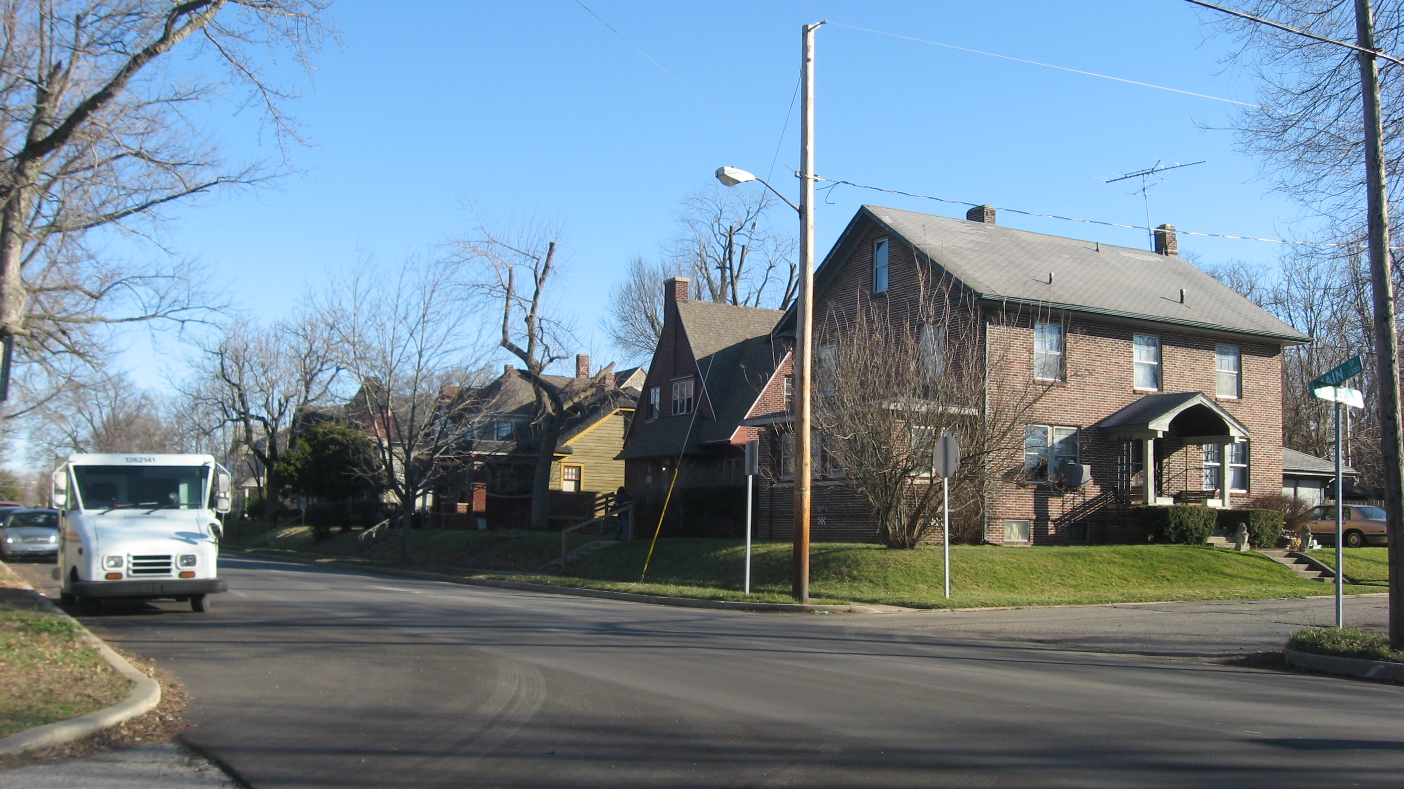 Houses on the southern side of Main Street (State Road 32) just east of the Wolfe Street junction in Muncie, Indiana, United States. This block is part of the Kirby Historic District, a historic district that is listed on the National Register of Historic Places.